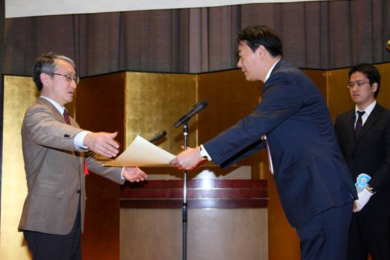 Banri Kaieda, Minister of State for Science and Technology Policy, awarded a certificate of commendation to Jun'ichirō Kawaguchi, Professor of the Department of Space Systems and Astronautics, Institute of Space and Astronautical Science, on December 2, 2010.